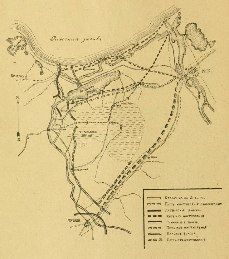 Capture of Riga by Latvian, White Russian, and German volunteer detachments. May 1919.